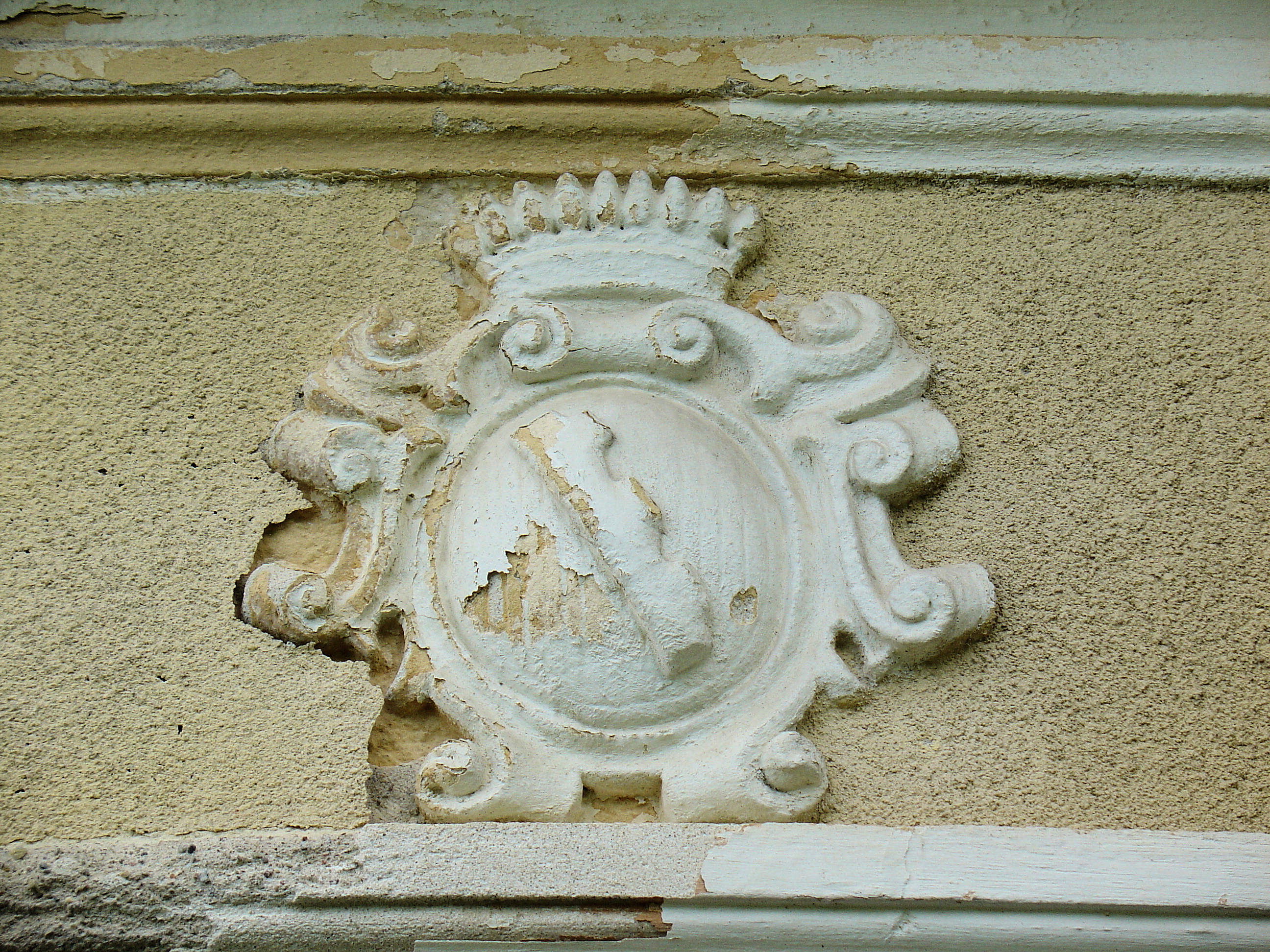 Palace in Wielewo - coat of arms